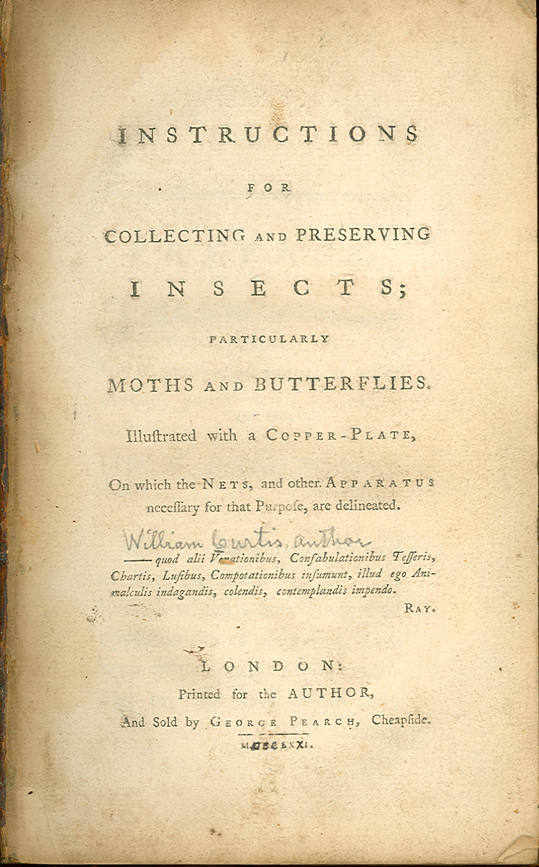 Title page of Instructions for collecting and preserving insects; ... (1771) An early example of a natural history text for the general reader, the full title on the page is as follows; Instructions for collecting and preserving insects; particularly moths and butterflies. Illustrated with a copper-plate, on which the nets, and other apparatus necessary for that purpose are delineated. London: Printed by the author, and Sold by George Pearch, Cheapside 1771